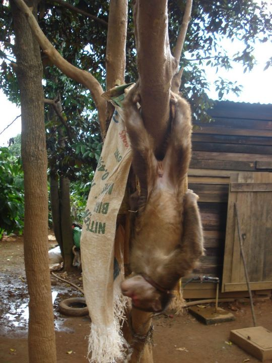 Random photos of Vietnam, 2012, by Daniel Hills